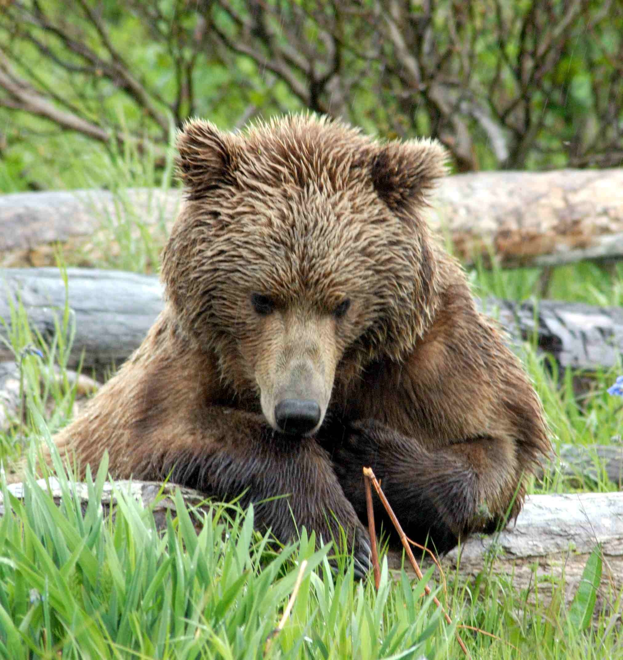 To learn more about Alaska, visit my my Alaskan website.